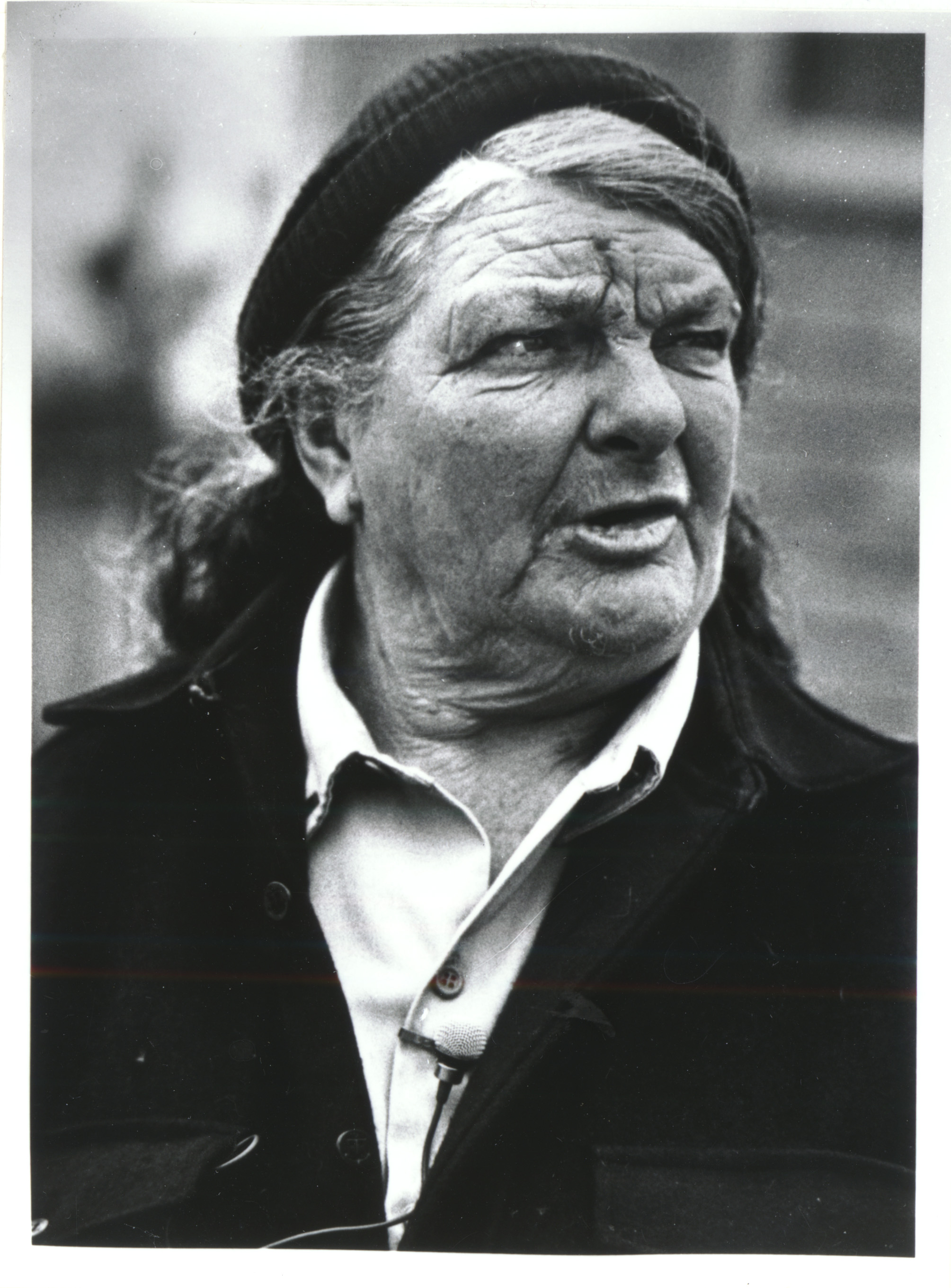 The protector of the western end of Nantucket Island, Madaket Mille watched for shipwrecks, cared for her animals, sold ice cream, and was a gruff feature of the Nantucket landscape until her death in 1990. There are many stories about Madaket Millie. She killed a 300-pound shark in Hither Creek; was a good friend of Mr. Fred Rogers; and was awarded, by the U.S. Coast Guard its highest civilian rank, chief warrant officer W-4. She was born September 24th, 1907. Image number: F6488